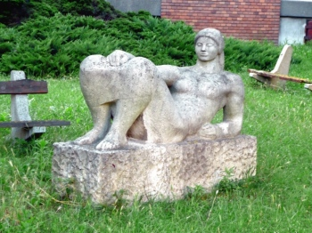 "Relaxation", Barna Megyeri sculptors